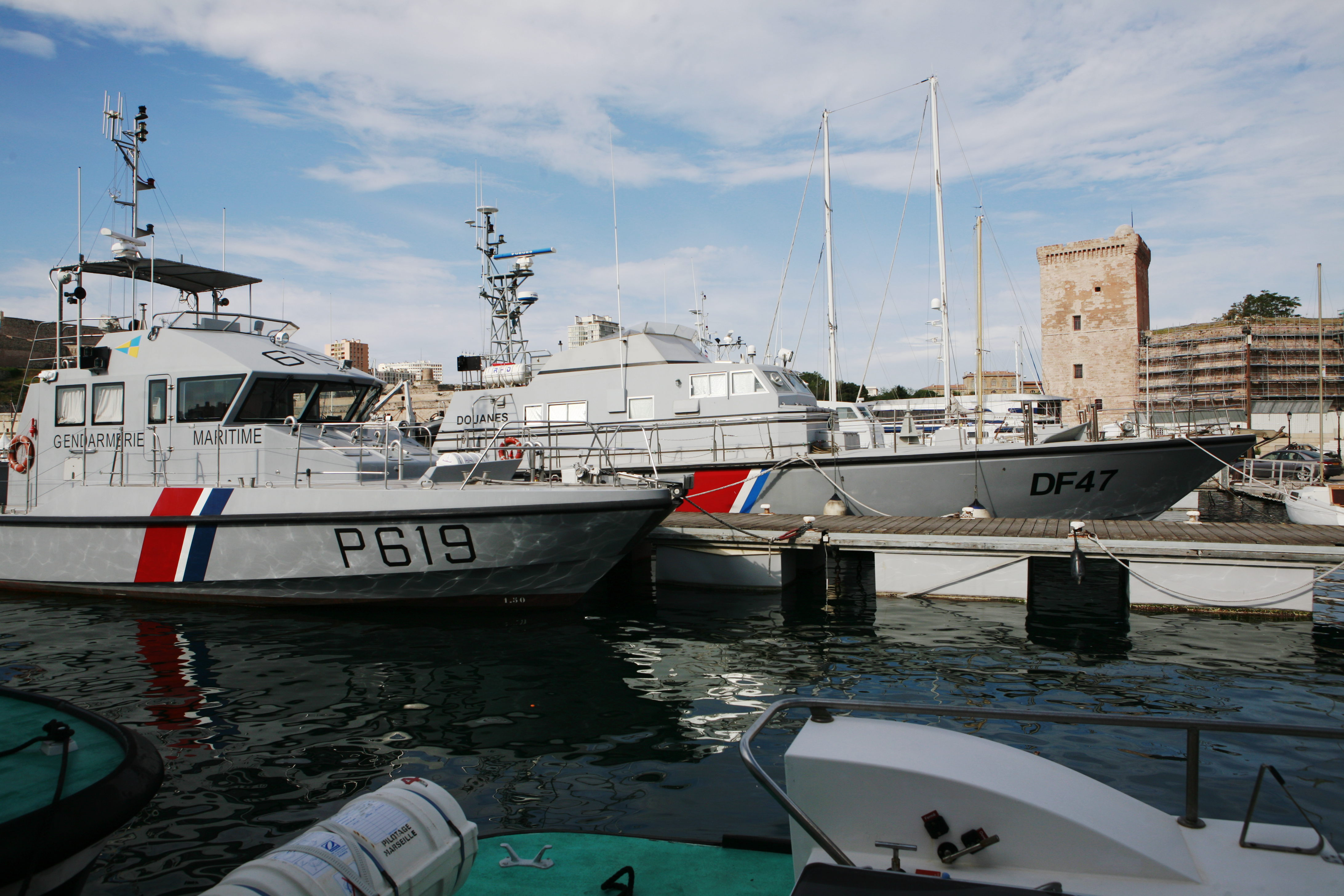 VSCM (vedette côtière de surveillance maritime, "Coastal boat for sea surveillance") Huveaune (P619), of the Gendarmerie maritime and Haize Hegoa type patrol boat Lissero (DF47), of the French customs services, photographed in the old harbour of Marseille.